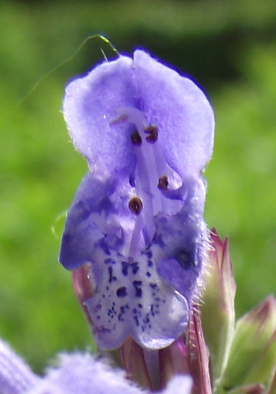 Dracocephalum ruyschiana, Flower, Macro shot